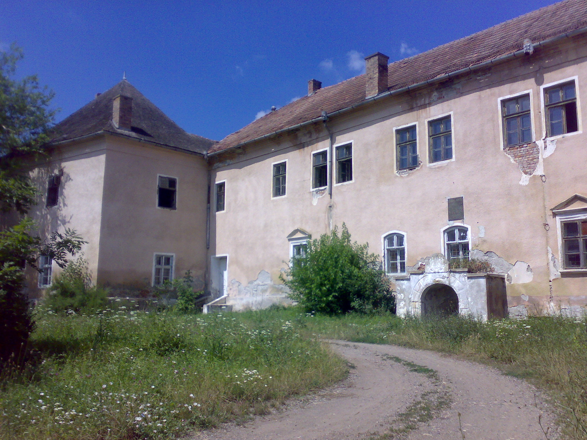 The castle in Radnót (Kornis-Rákoczy-Bethlen Castle).